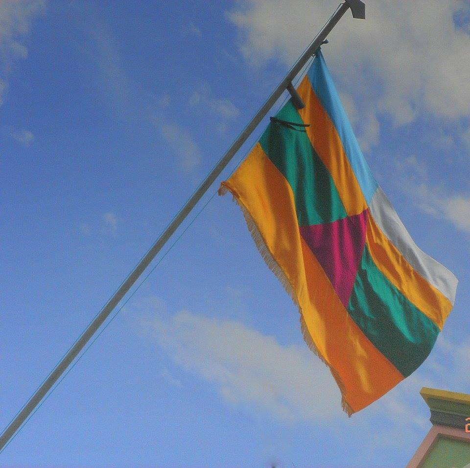 Bandera oficial de la Parroquia Huertas